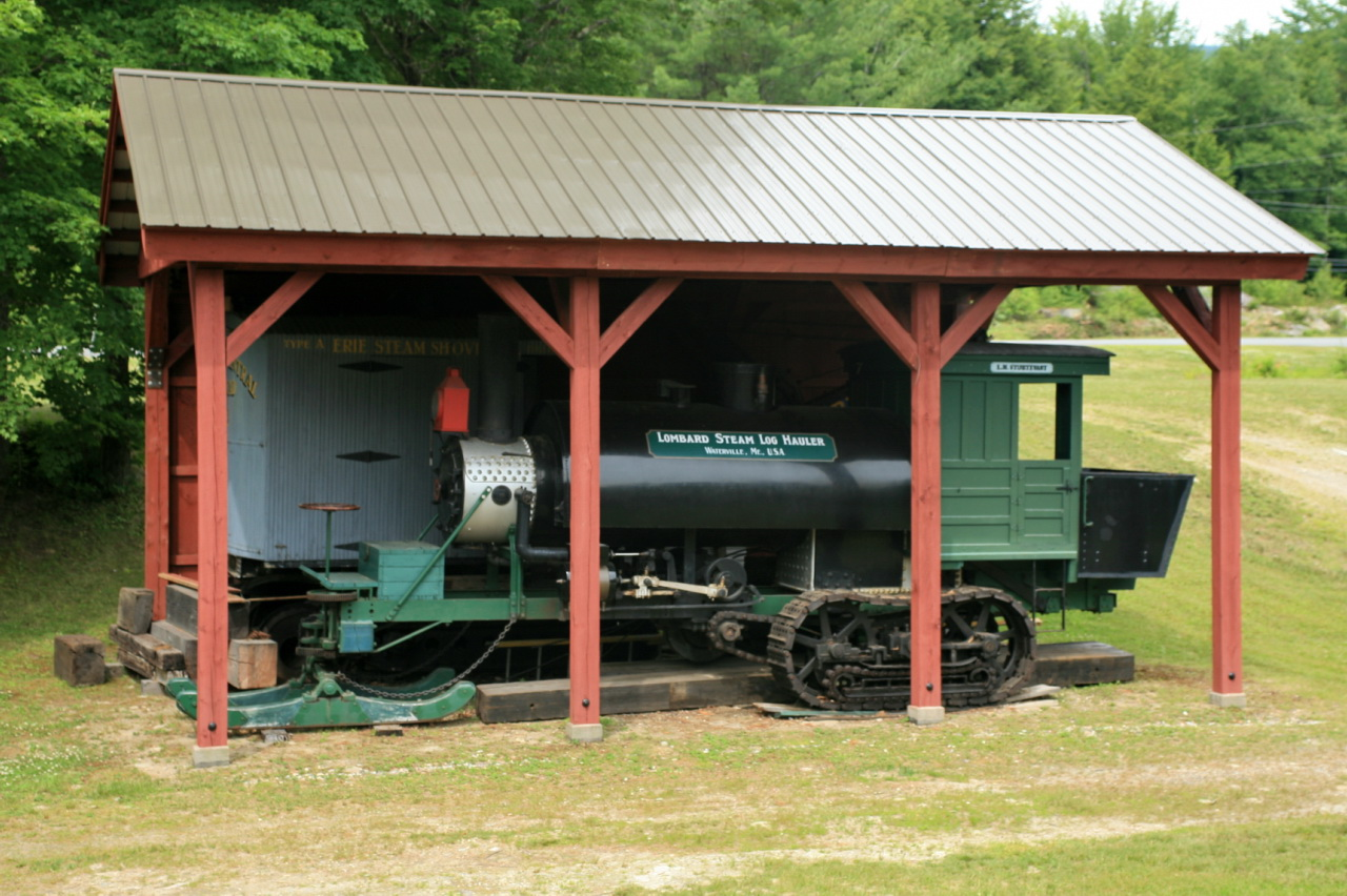 Lombard Steam Log Hauler "Designed, patented (1901), and built by Alvin C. Lombard (1856-1937) of Waterville, Maine, eighty-three 'Lombards' were the first practical examples of the often-tried lag or crawler tread that would become the mark of the internal combustion engine-driven agricultural and construction equipment and military tanks in current use." Lombard's first log hauler had an upright boiler and two upright engines, but these were later made horizontal. It became "a railroad yard engine, known as a saddle back". It had a cab in front for the steersman and one at the rear for the engineer and the fuel. Typically, it had a four-man crew engineer, fireman, conductor and steerer. A bell rope was provided so that the conductor, near the rear, could communicate with the front cab. The Lombard steam log hauler has been designated as a National Historic Mechanical Engineering Landmark by the American Society of Mechanical Engineers.